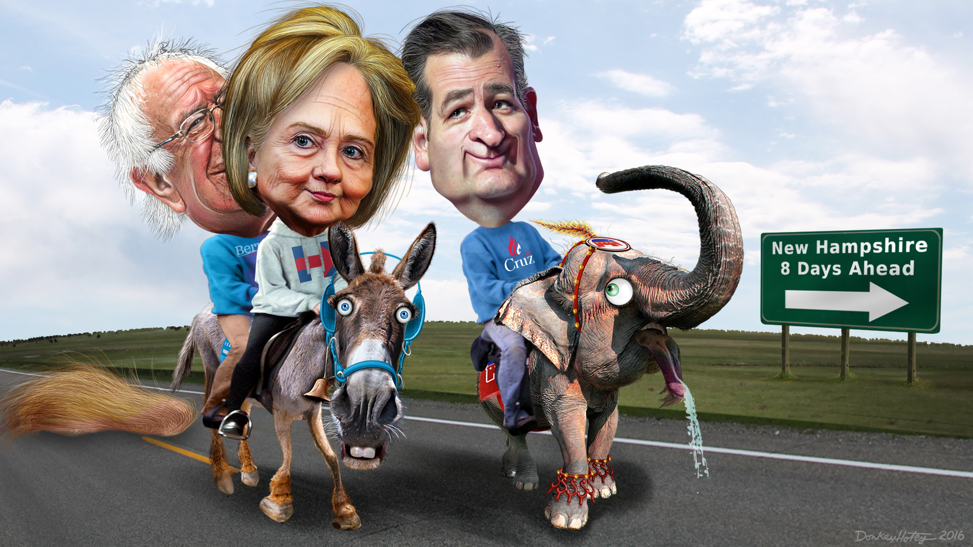 This caricature of an elephant was adapted from a Creative Commons licensed photo from Visnu Pitiyanuvath's Flickr photostream. This caricature of an donkey was adapted from a Creative Commons licensed photos from Don DeBold's and Klearchos Kapoutsis's Flickr photostreams. The sign was adapted from a Creative Commons licensed photos from Don DeBold's and Elvert Barnes's Flickr photostream. This caricature of Hillary Clinton was adapted from a photo in the public domain from the East Asia and Pacific Media's Flickr photostream. This caricature of Ted Cruz was adapted from a Creative Commons licensed photo from from Gage Skidmores's Flickr photostream. This caricature of Bernie Sanders was adapted from a Creative Commons licensed photo by Nick Solari available via Wikimedia.